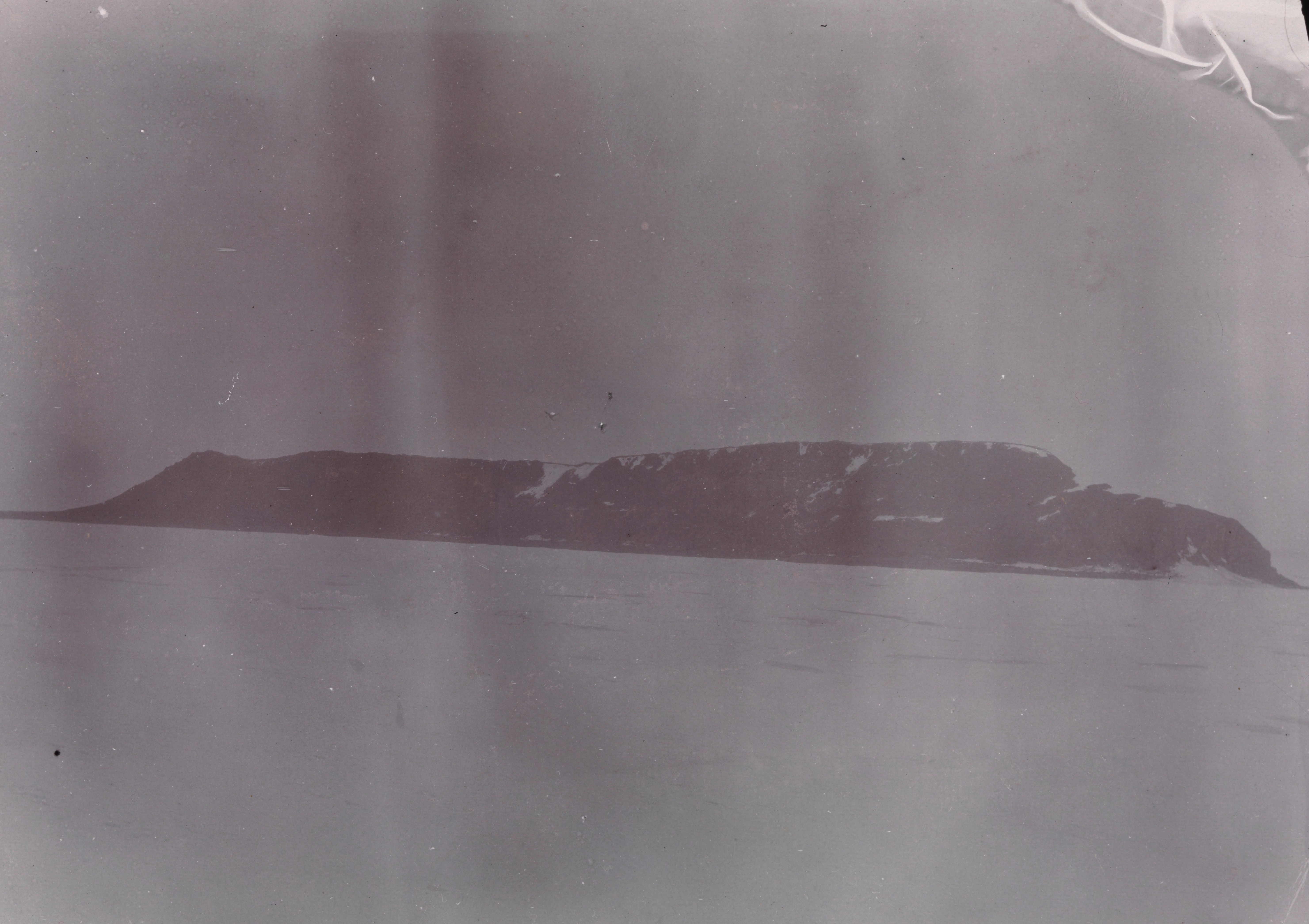 Torup's Island. One of the pictures from the expedition with arctic ship toward the North Pole in the period June 24, 1893 to August 13, 1896. According to the plan, the ship was to drift in the ice with the ocean current from the coast of Siberia across the North Pole to Greenland. In March 1895, Fridtjof Nansen, together with a companion, set out on a hazardous expedition with skis and dogsledges, in an attempt to reach the pole itself.